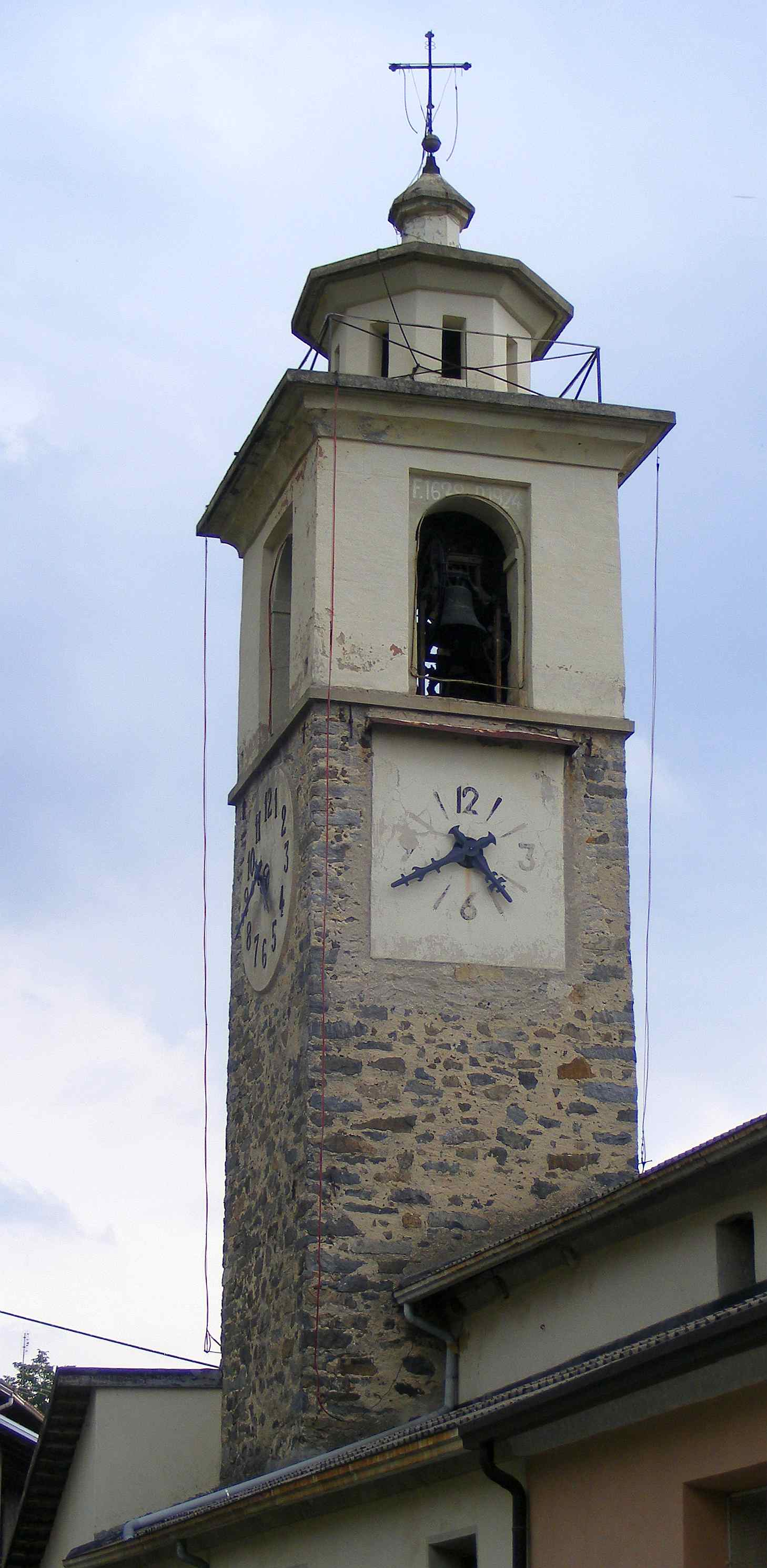 Bulliana (Trivero, BI, Italy): church tower